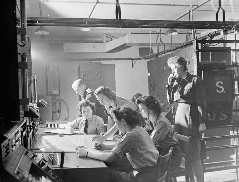 Royal Air Force Radar, 1939-145. Chain Home: Flight Officer P M Wright supervises (right) as Sergeant K F Sperrin and WAAF operators Joan Lancaster, Elaine Miley, Gwen Arnold and Joyce Hollyoak work on the plotting map in the Receiver Room at Bawdsey CH, Suffolk.